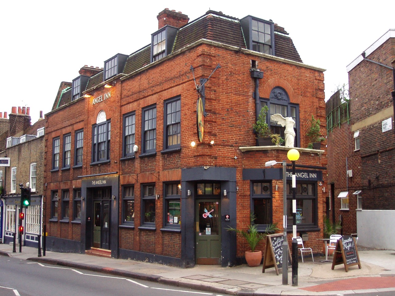 Seems to be a decent place. Address: 37 Highgate High Street. Owner: Mitchells and Butlers [Castle] (website). Links: Fancyapint Beer in the Evening Dead Pubs (history)